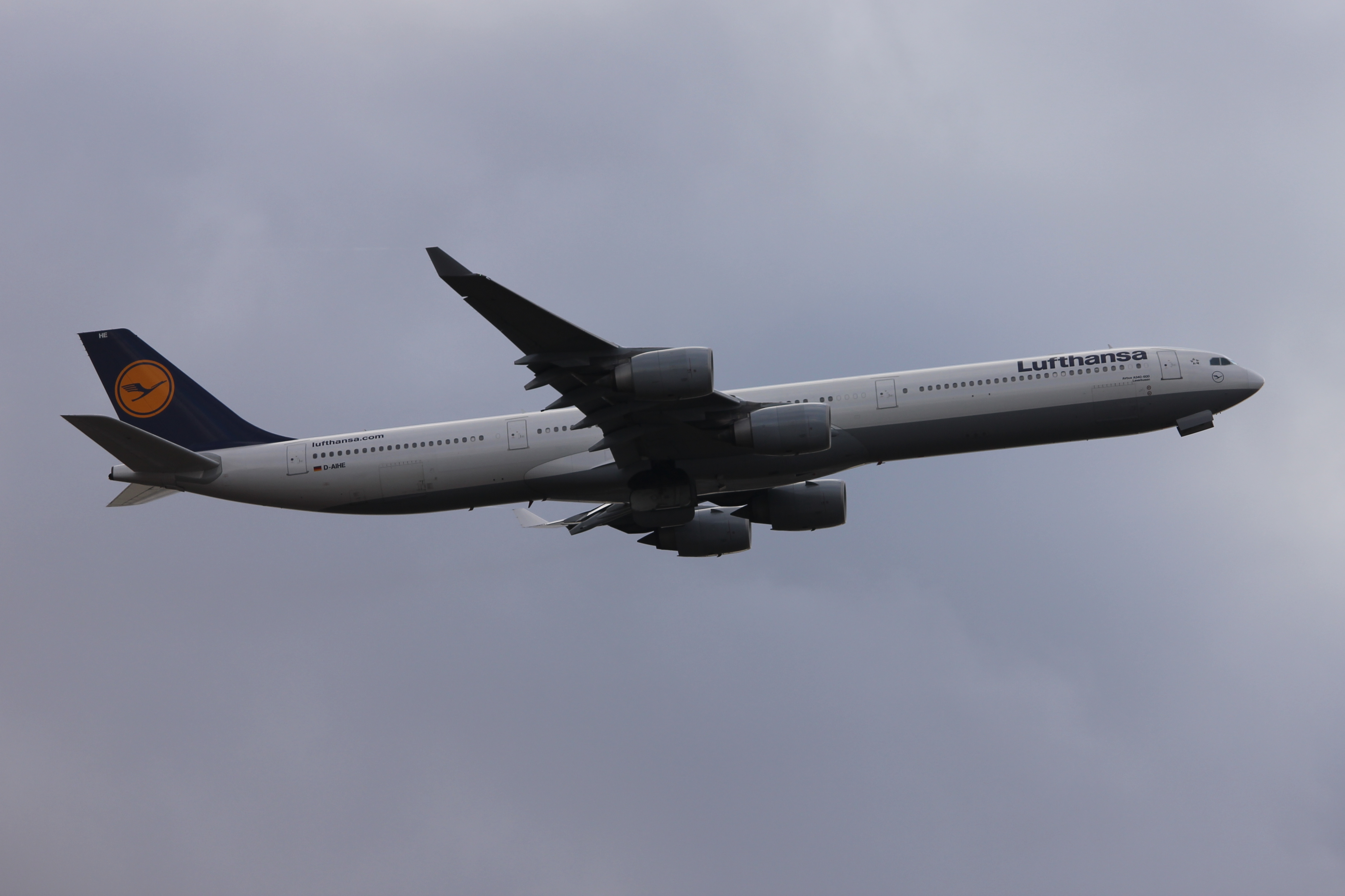 A340-600 of Lufthana in FRA